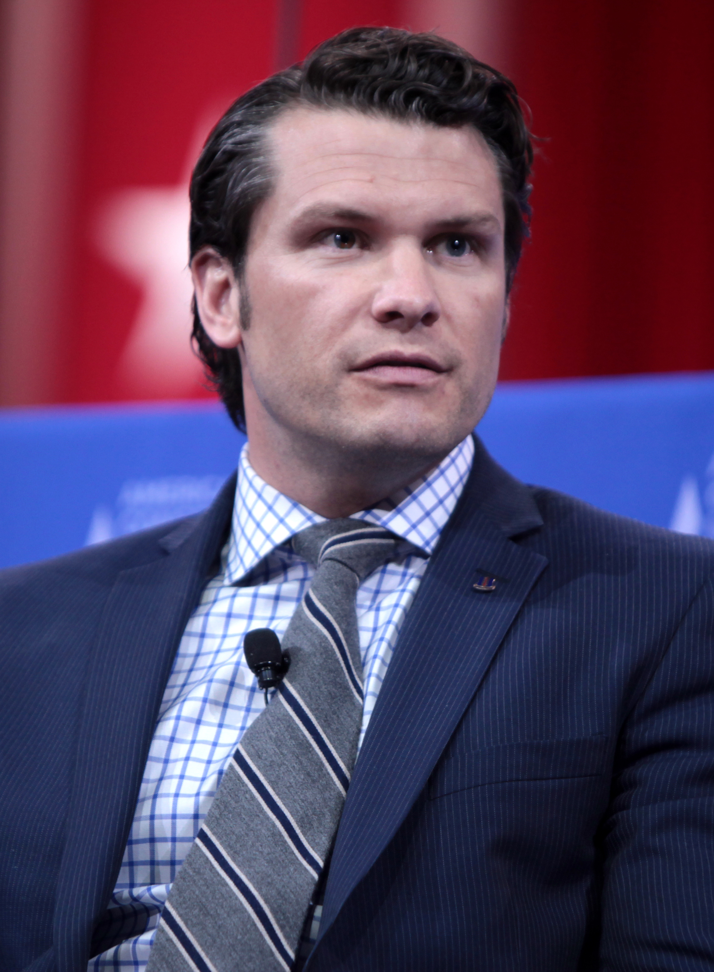 Pete Hegseth speaking at an event in Washington, D.C.